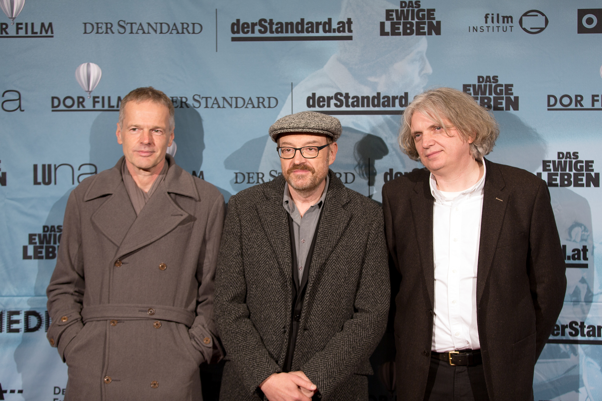 Premiere of the film Das ewige Leben at Gartenbaukino in Vienna, Austria: Wolf Haas, Josef Hader and Wolfgang Murnberger.